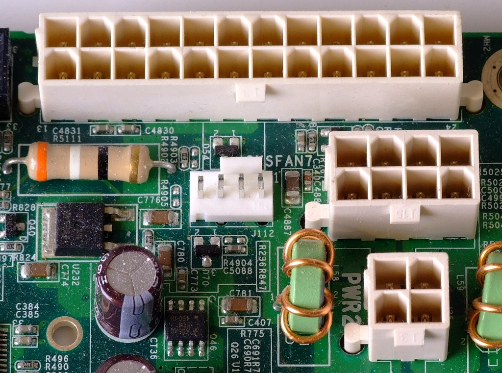 ATX / EPS / SSI power connectors: 24pin Main power, 8pin CPU, 4 Pin CPU - Motherboard Tyan S2912 n3600R (Server / Cluster)